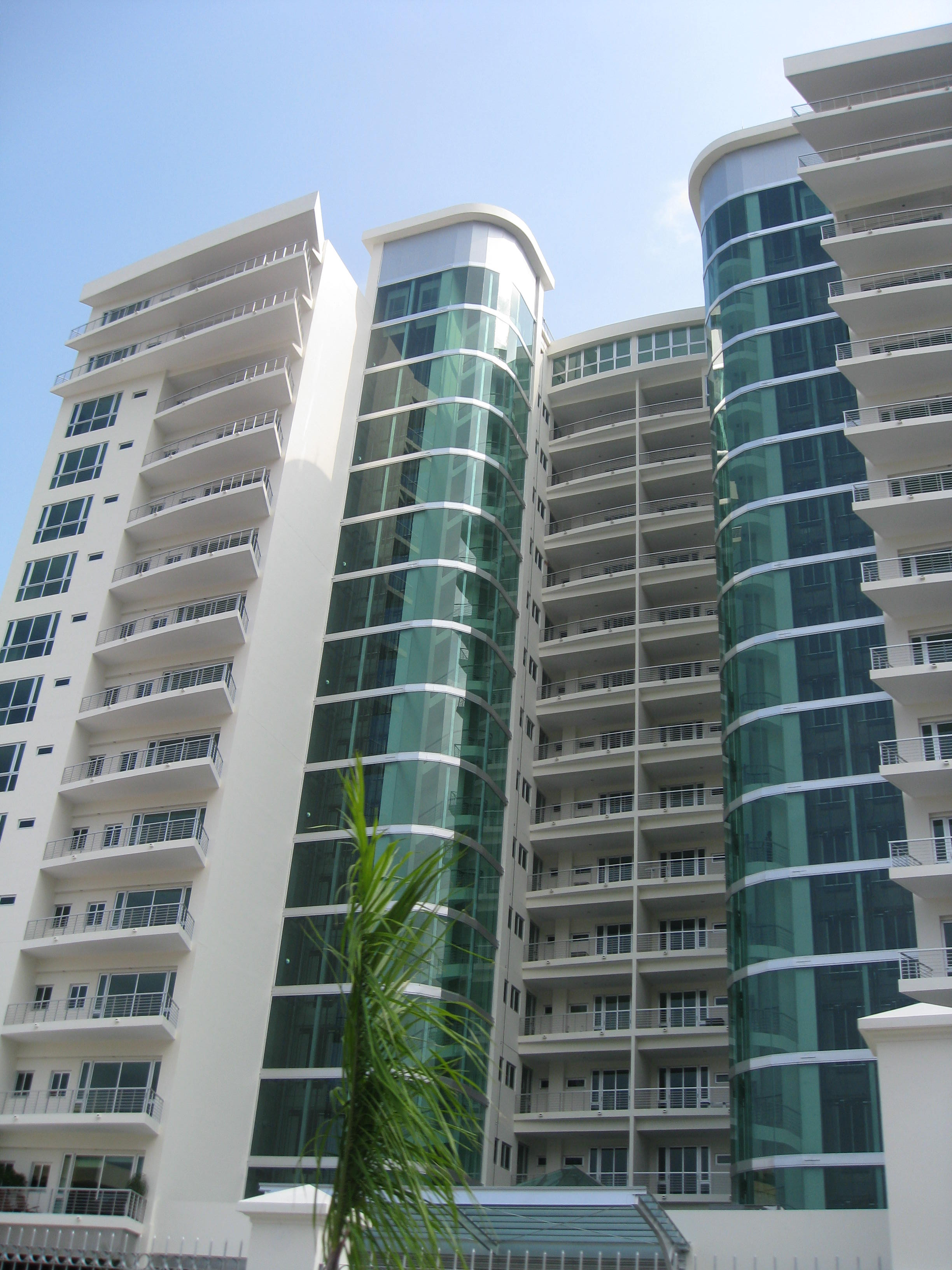 Terra Alta San Salvador